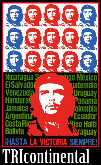 A Cuban poster featuring Che Guevara in the Guerrillero Heroico pose - advertising the 1969 Tricontinental Conference.